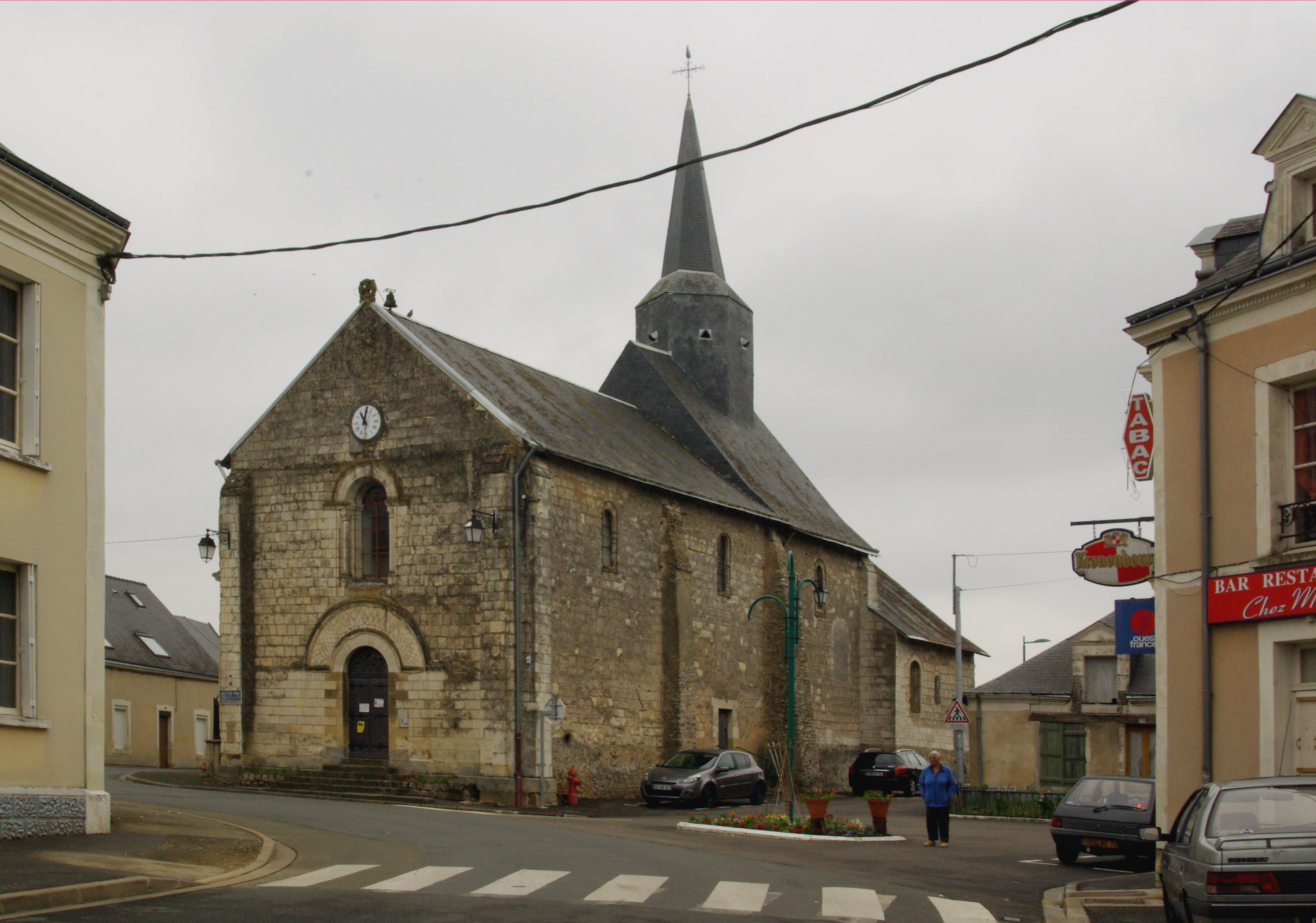 Church of Thorée-les-Pins